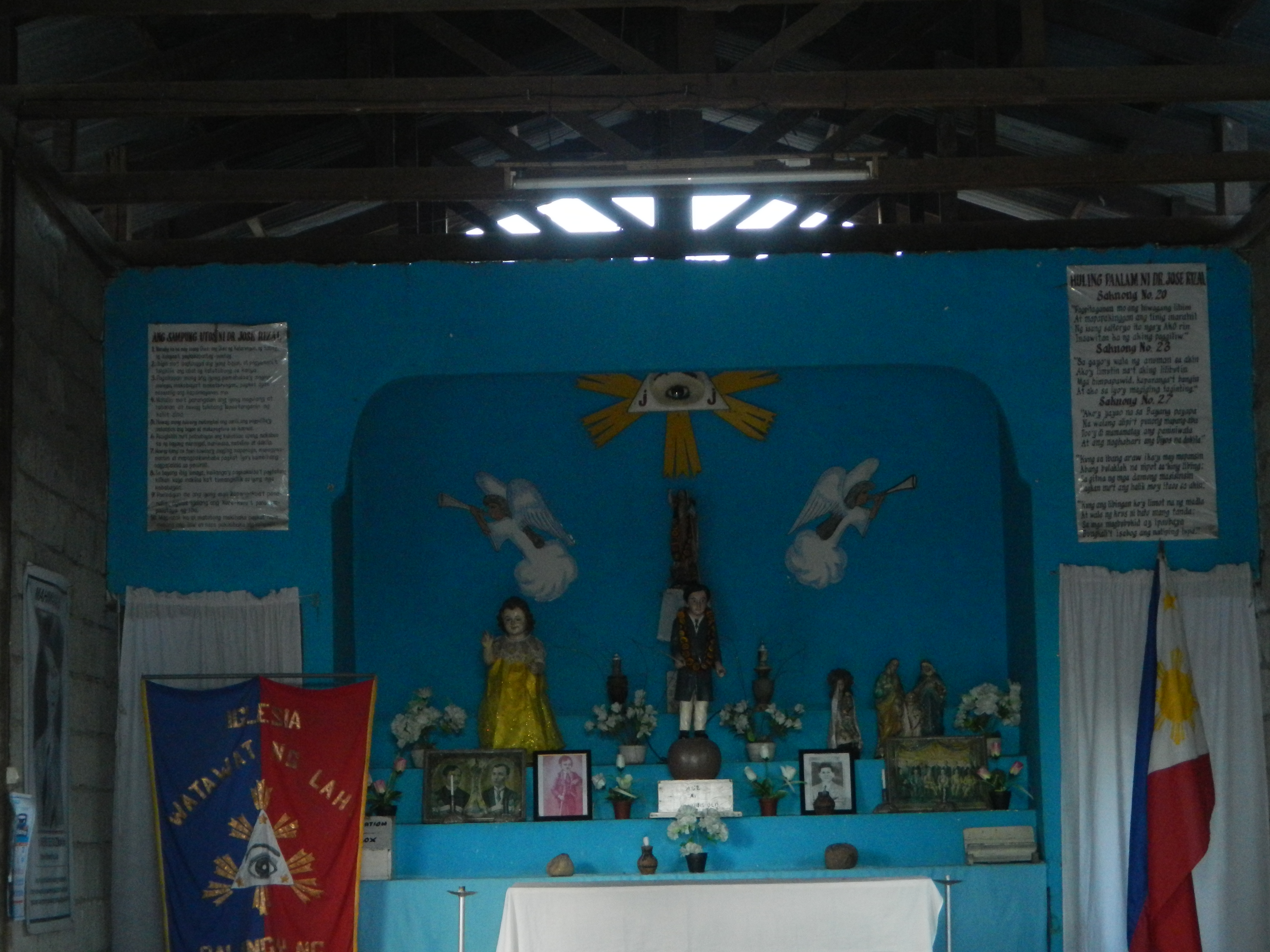 Iglesia ng Watawat ng Lahi, Malvarosa Faction, Inc., (Balangay Rizal, Jose Rizal Rizalista religious movements established on December 25, 1936. Rev. Fr. Luis Fabrigar and Jose Valincunoza in Barangay Sierra, La Paz, Tarlac.